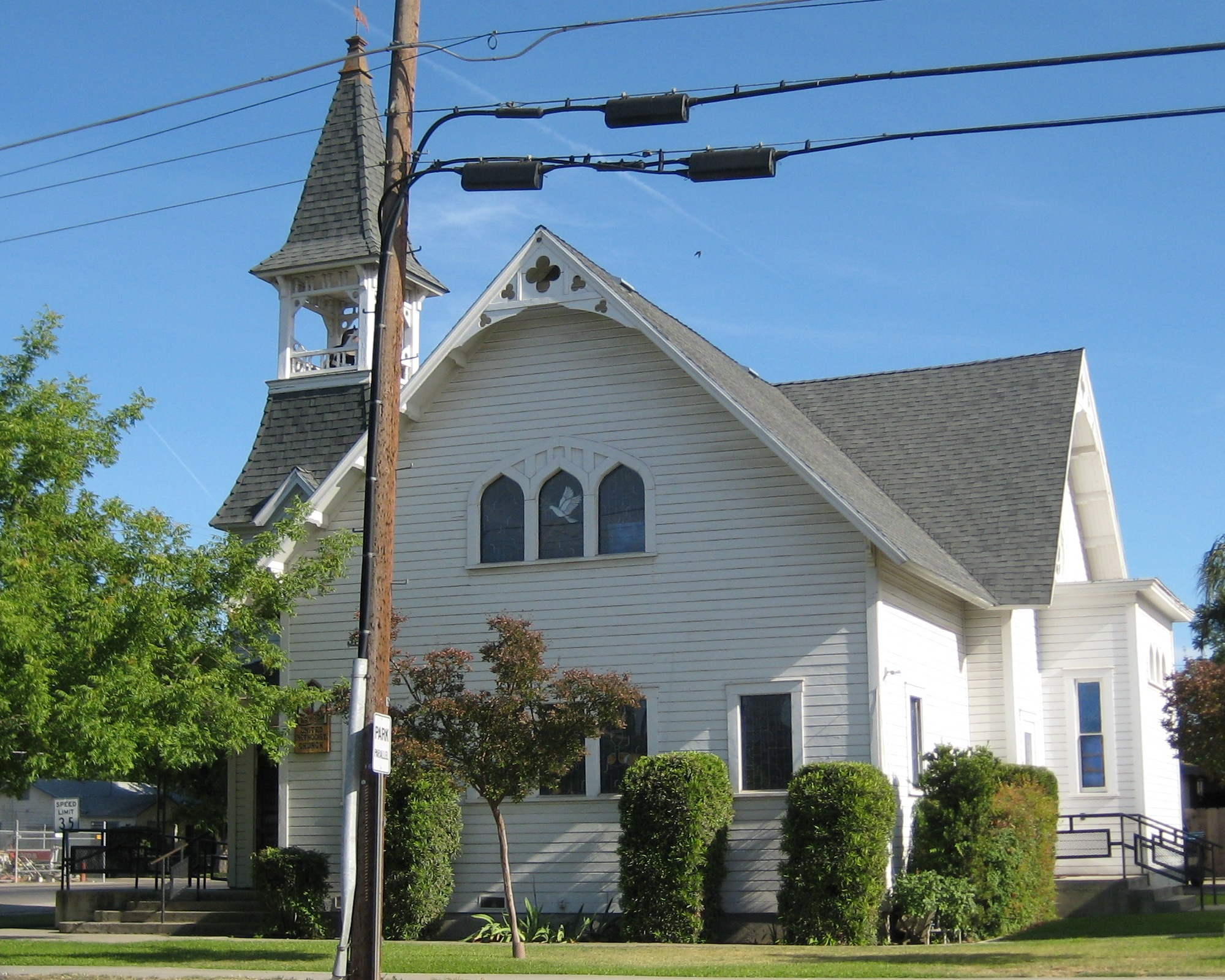 Photo of the United Methodist Church in Armona, California.